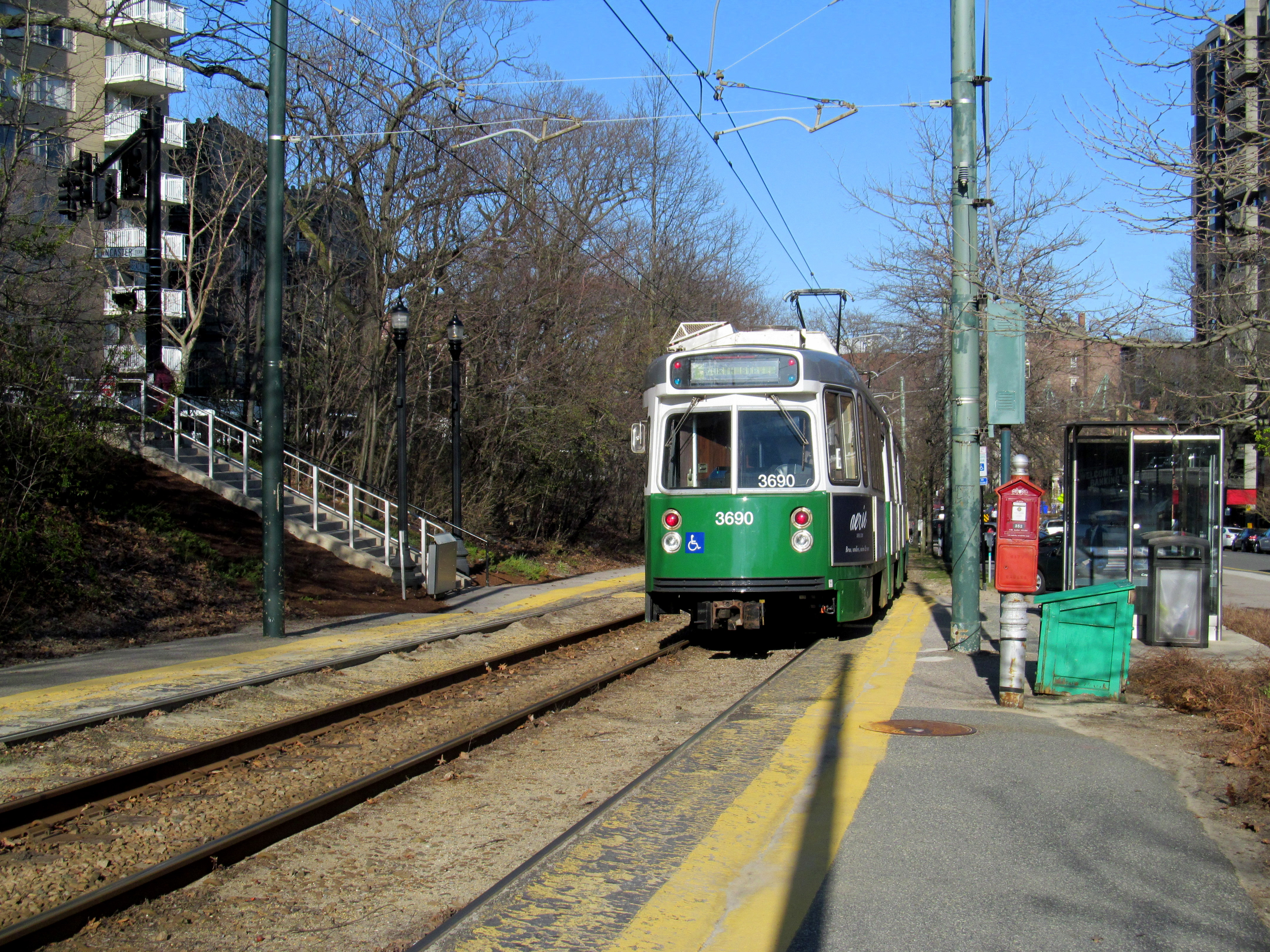 An inbound train leaves Fairbanks station in April 2016